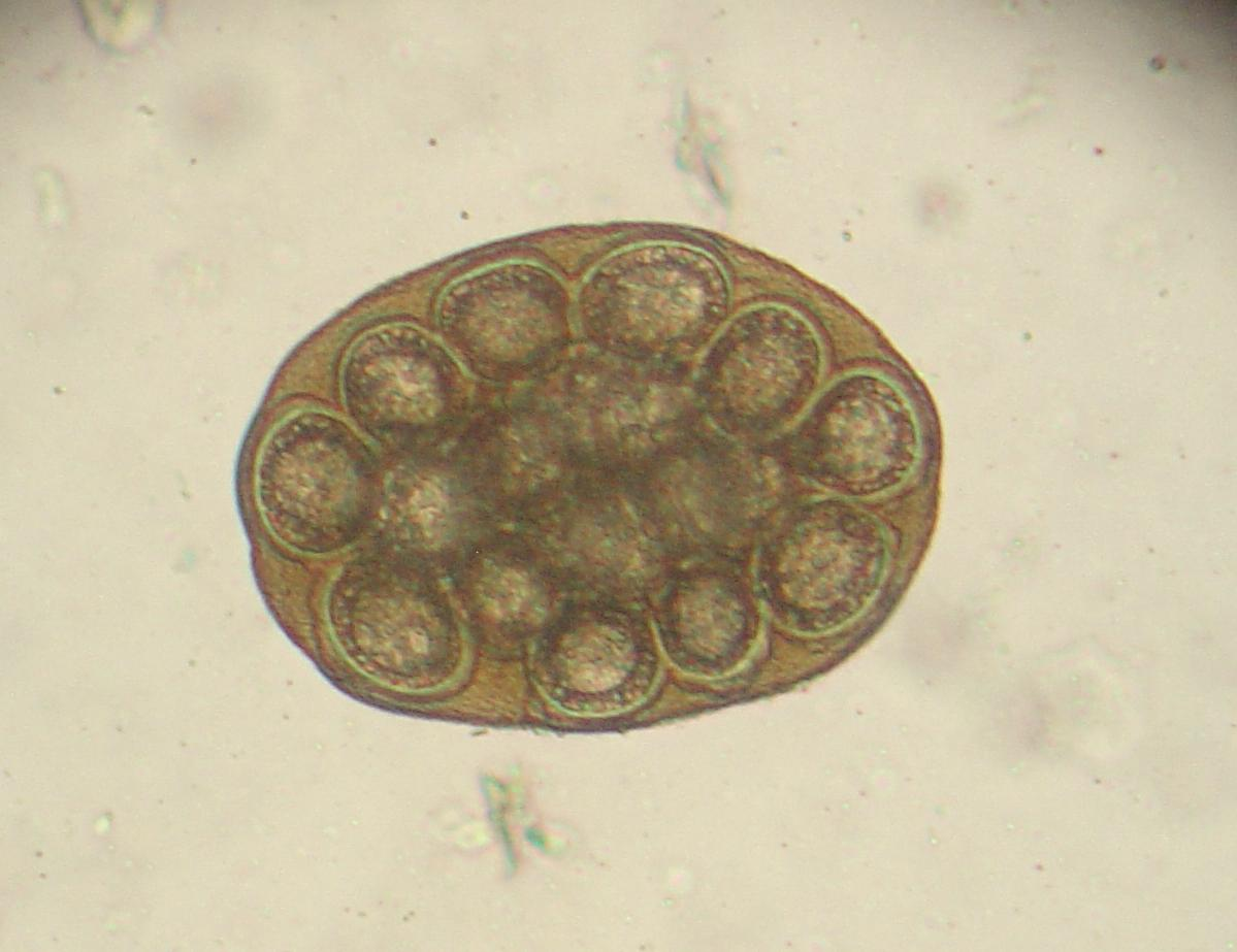 An egg packet of Dipylidium caninum. Photo taken through a microscope at 400x.